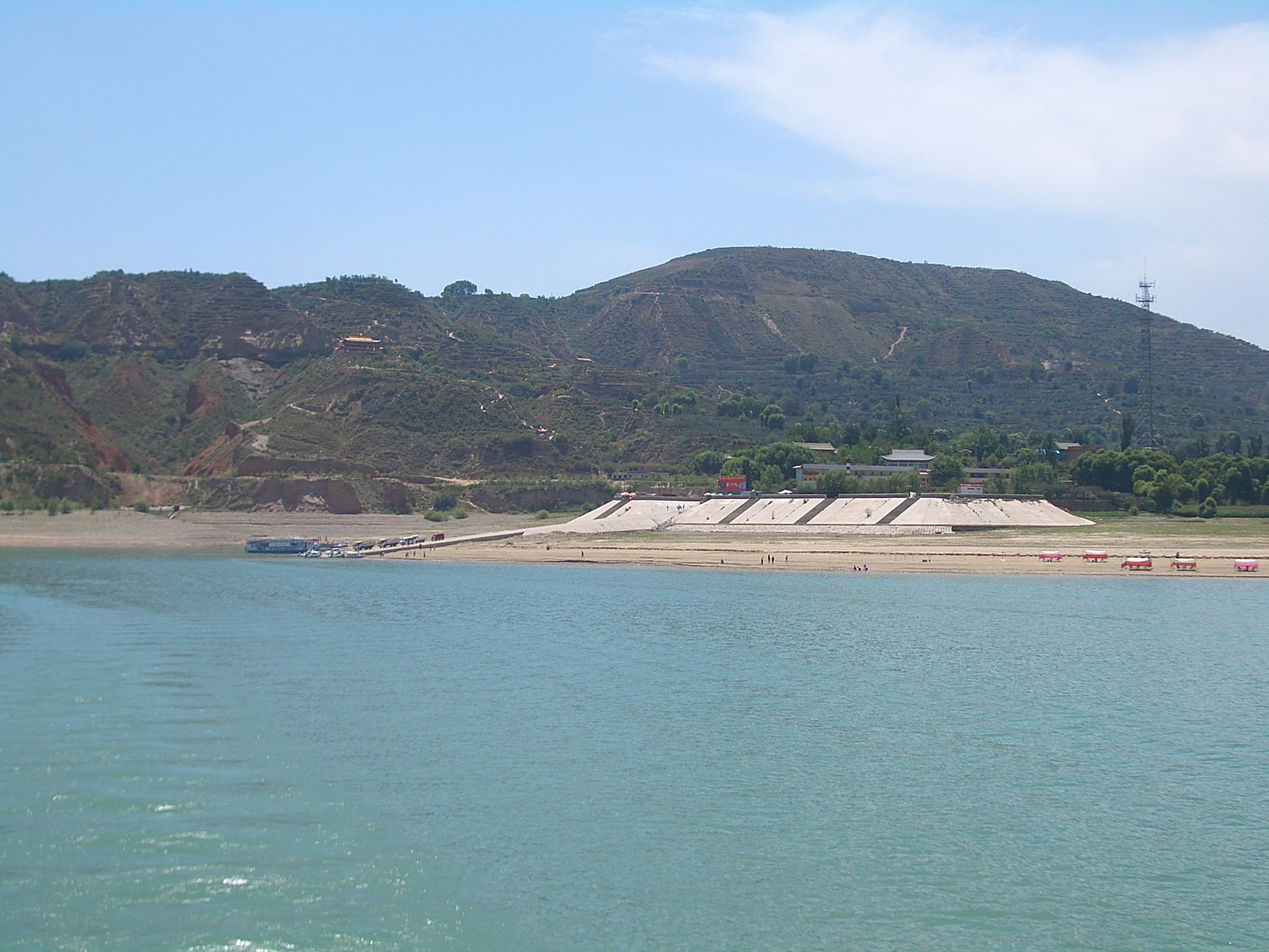 The Lianhua Tai ferry terminal - Linxia County's main port - seen from a Liujiaxia Reservoir ferry.